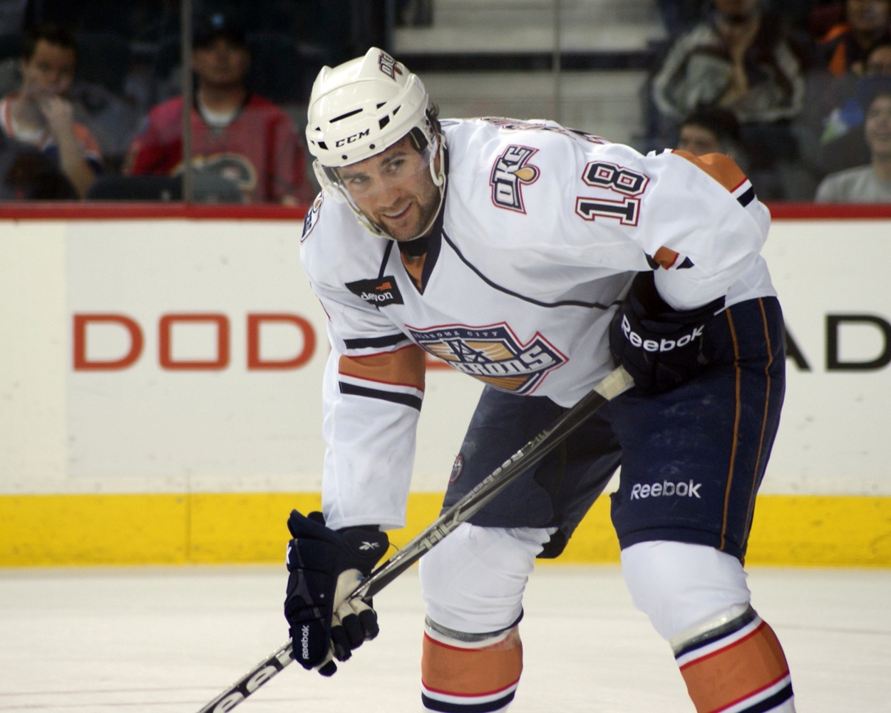 Colin McDonald, born September 30, 1984 in Wethersfield, Connecticut, is an American professional ice hockey forward. He was selected by the Edmonton Oilers in the 2nd round, 51st overall, of the 2003 NHL Entry Draft. Photo was taken on February 18, 2011 during an American Hockey League (AHL) regular season game.